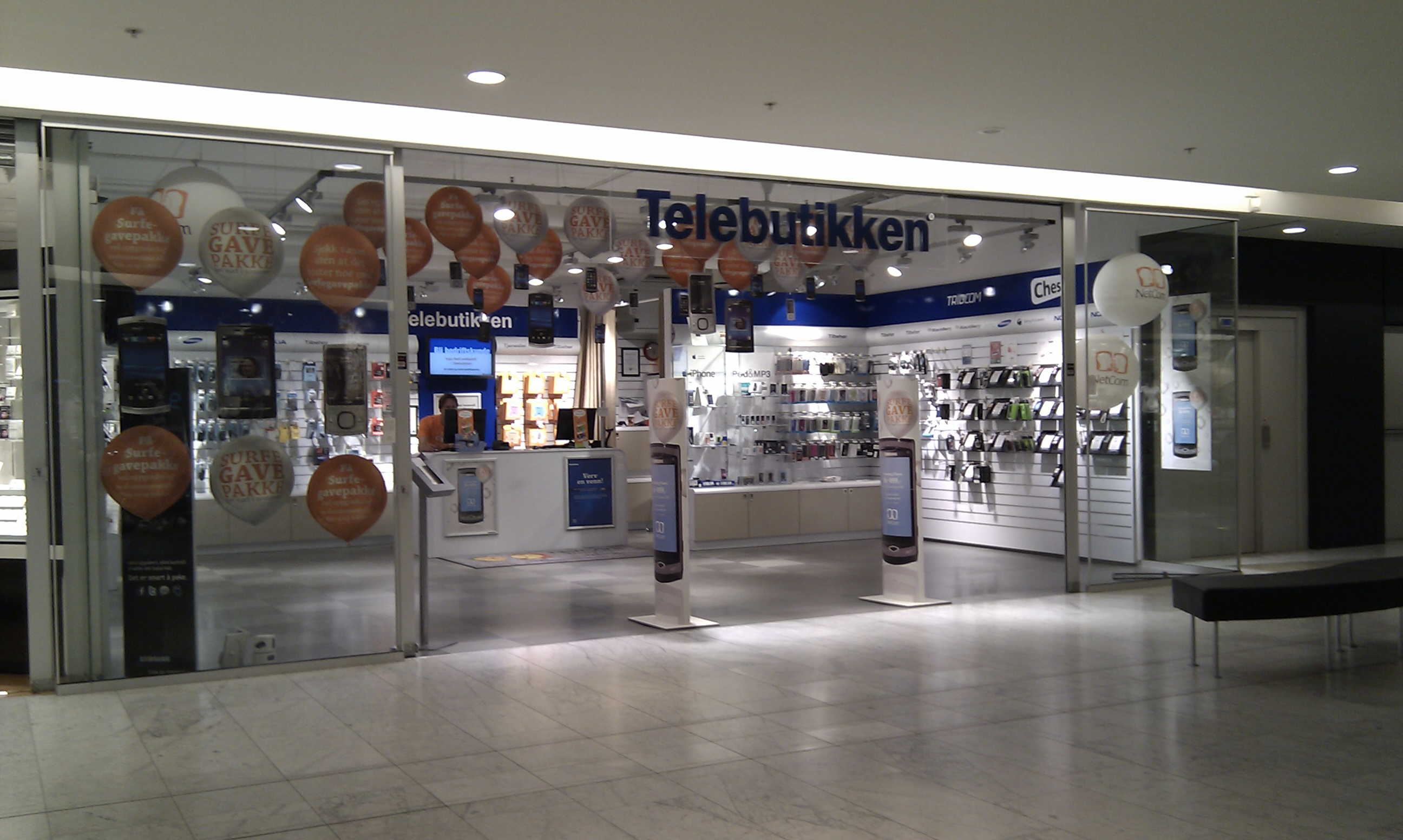 Telebutikken, a Norwegian mobile phone and photo retail chain in Norway. This photo is showing the shop in Hønefoss.